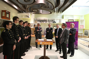 Ares Rosakis addressing École Polytechnique students during a ceremony to sign an agreement for a Master's Education Exchange Program in Aeronautics/Space Engineering and Mechanics.